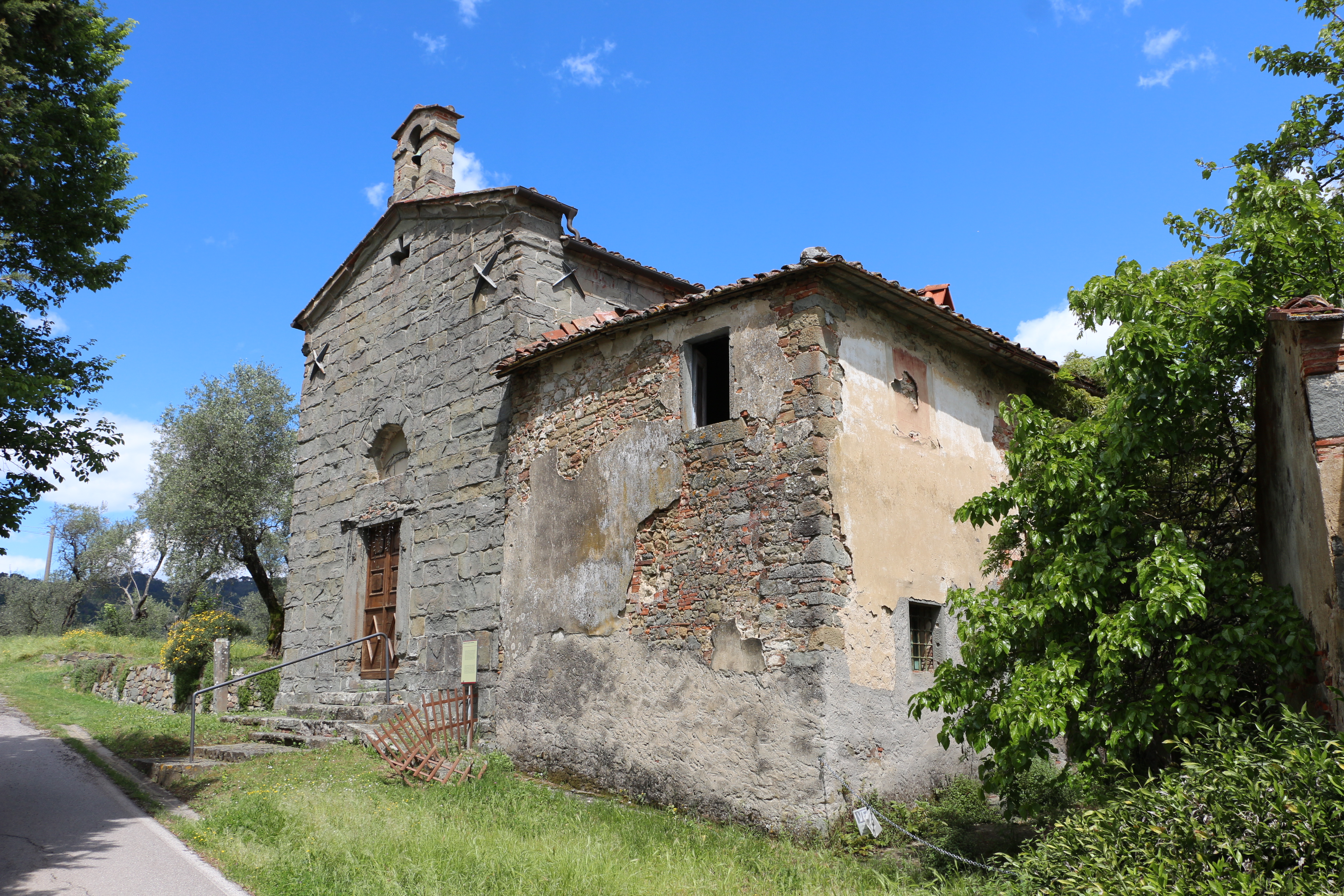 Santo Stefano (Buggiano)